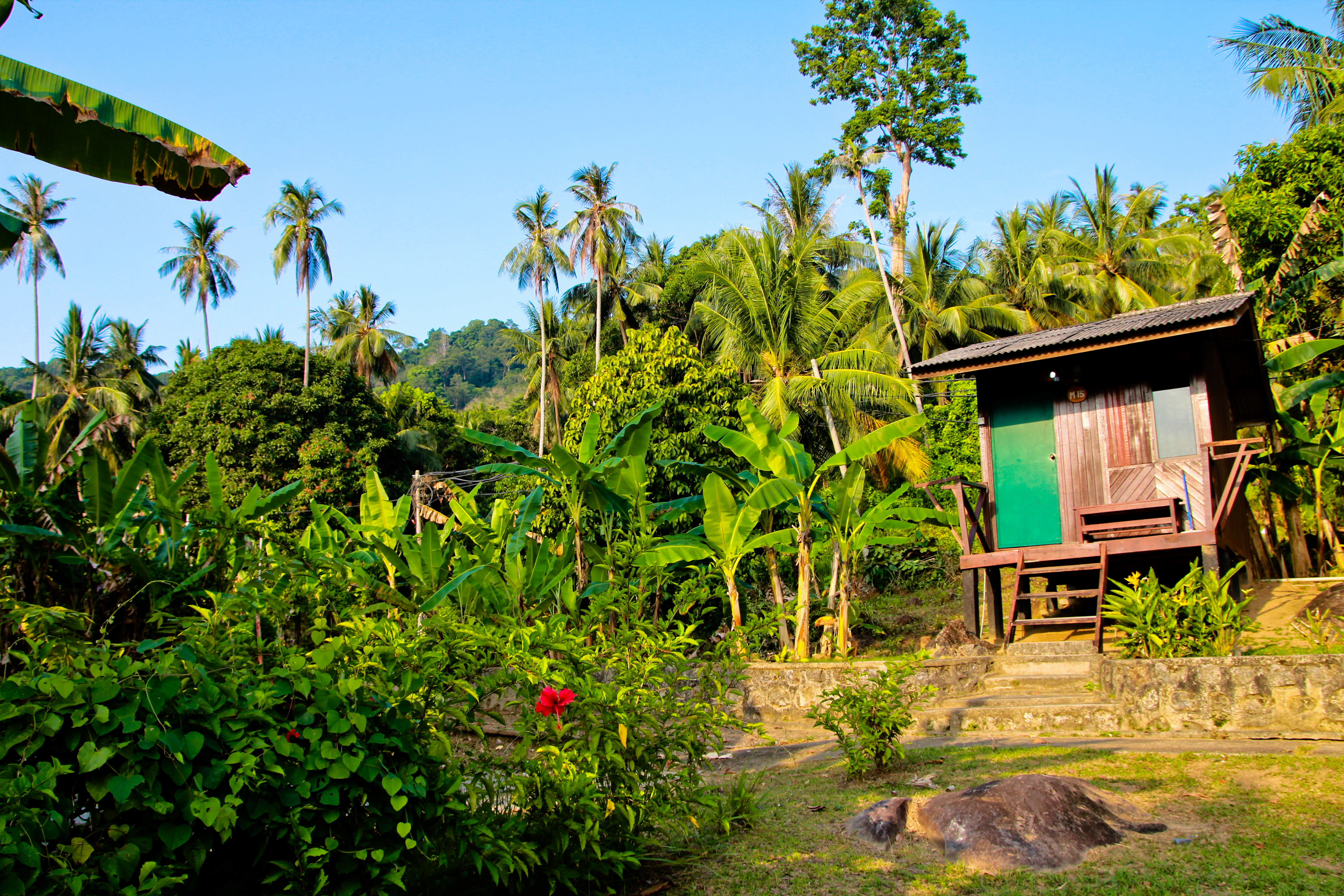 Pulau Tioman